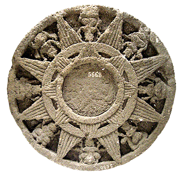 'Surya Majapahit' or 'The Sun of Majapahit' is the emblem common found in temples and ruins dated from Majapahit era. Some scholars suggested that this sun disc was the royal emblem of Majapahit, probably functioned as the coat of arms of Majapahit empire. The sun disk is stylized with carved ray of light; surrounded by eight Lokapala gods, the eight Hindu gods that guarded eight cardinal points of the universe. There's other version of Majapahit's Sun, such as sun disc with sun god Surya riding a celestial horse or chariot, to just a simple sun disc with stylized ray of light. (Collection of National Museum of Indonesia, Jakarta)